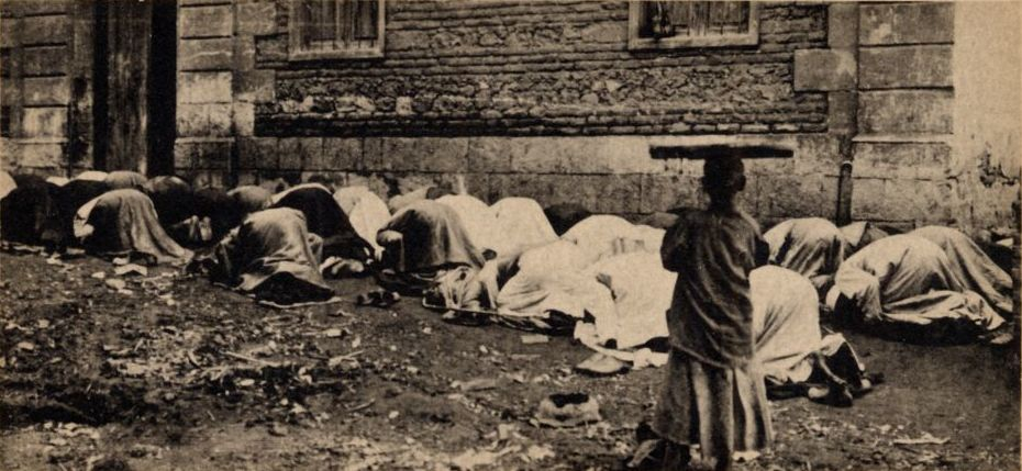 Many natives bowing to the ground in prayer